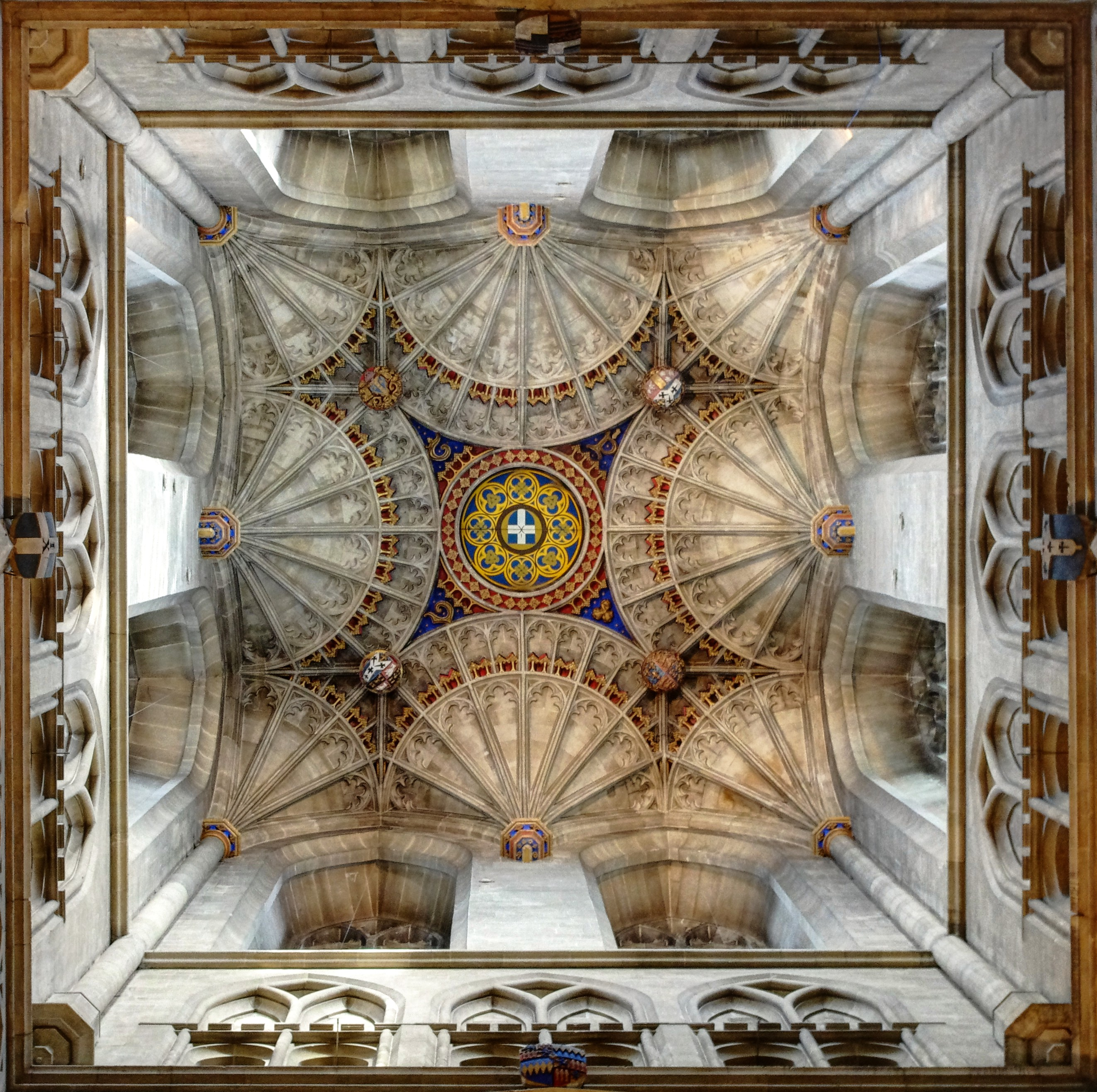 Roof of Bell Harry Tower, Canterbury Cathedral Wikidata has entry Q29265 with data related to this building.